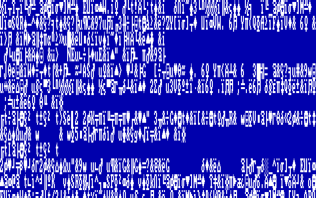 Screenshot of Windows 1.0 crashing on startup, displaying random characters. Original description: "Finally.. The Original Blue Screen of Death in Windows 1.0! Although this is not the true "Blue Screen of Death", it is funny to see this happened even back in the day! The origins of the blue screen...." Miguel Carrasco's Real World